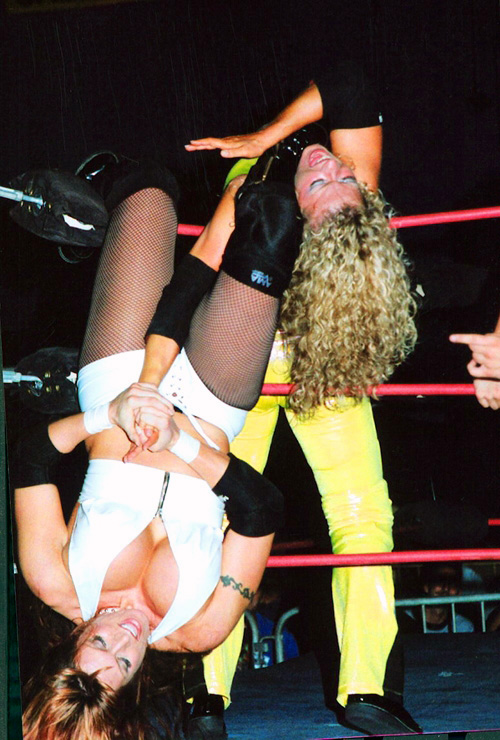 April Hunter applying her Hunter Hangman wrestling move to an unknown opponent